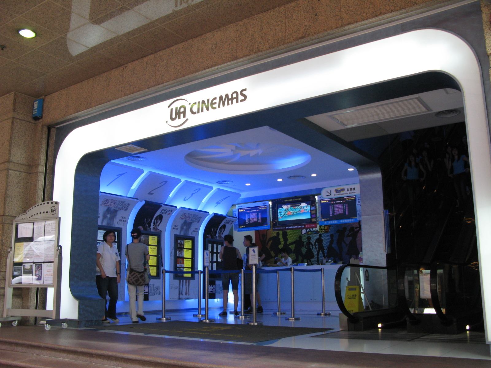 UA Cinemas in Hong Kong Time Square. Opened in December 1993. Closed in February 2012. The site was replaced by a Louis Vuitton store, and the UA theater was relocated to the 12th to 14th floor of the mall.